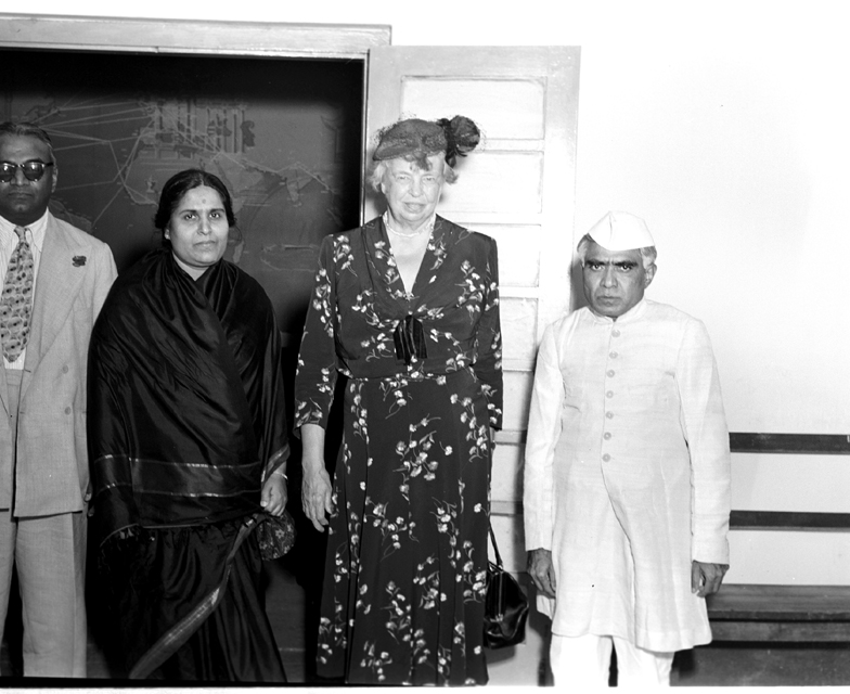 Group photograph taken on the departure of Eleanor Roosevelt from Hyderabad on March 9, 1952: (Left to Right): M.K.Vellodi, Mrs.Vellodi, Eleanor Roosevelt, Former first lady of USA, Burgula Ramakrishna Rao, Chief Minister of Hyderabad